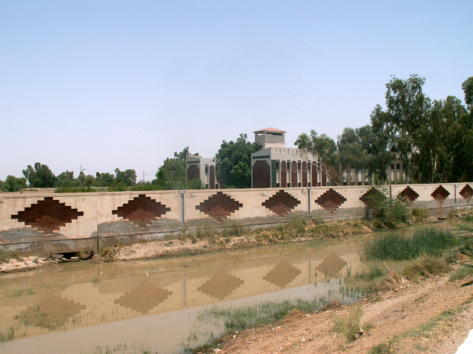 Army Public School Dadu